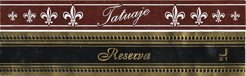 scan of the band of the Tatuaje Reserva J21 cigar